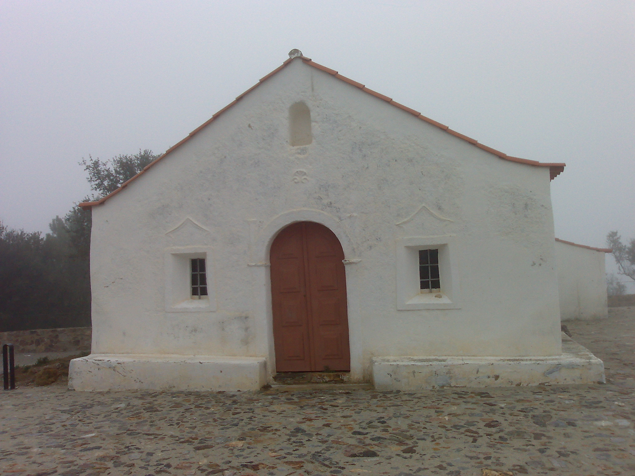 Chapel of Nossa Senhora do Castelo, near the Ródão castle, Vila Velha de Ródão, Portugal.